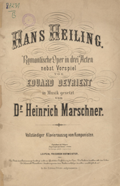 Out of copyright score for Marschner's opera Hans Heiling